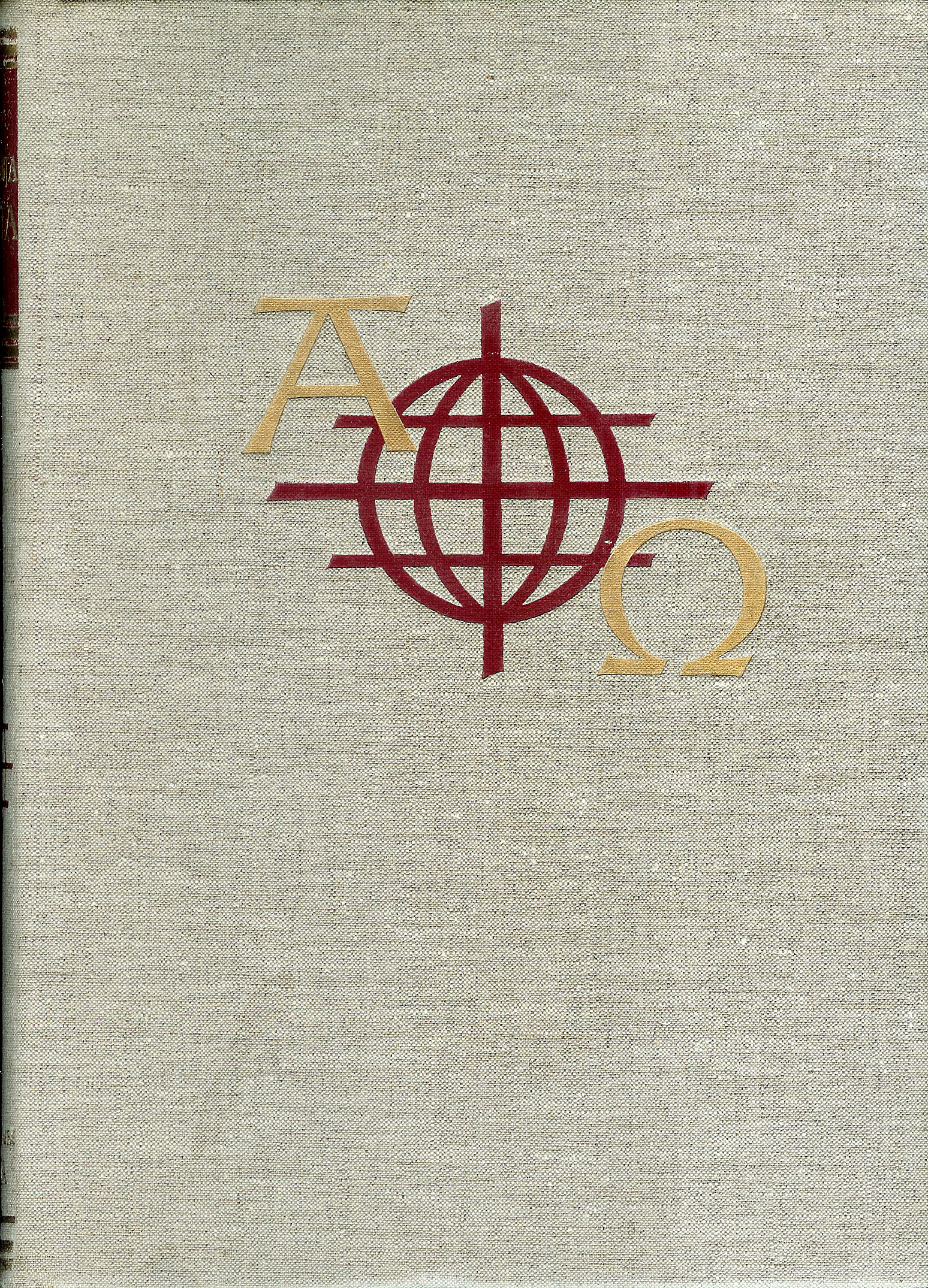 Front page of Serbian encyclopedia "Mala prosvetina enciklopedija" from 1959